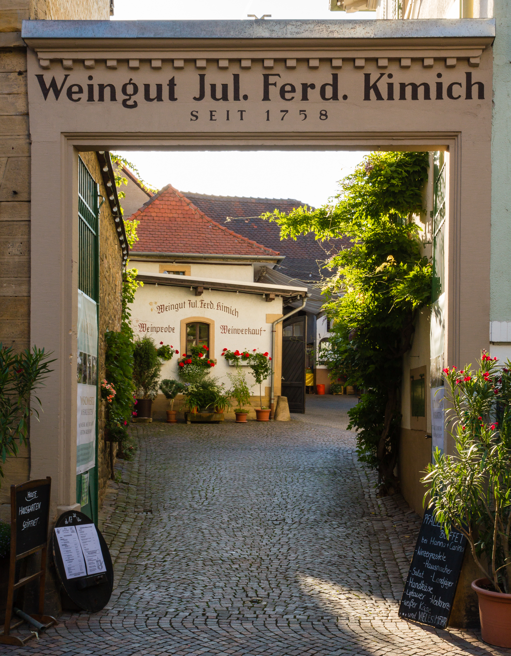 Designation: Winery Kimich Location: Weinstraße House number: 54 Place: Deidesheim, District Bad Dürkheim, Rhineland-Palatinate Construction time: 1816 Description: Late-classicistic plaster building above a semi-basement, gateway, 1816. Garden pavilion, cast iron, about 1870/80; end wall 18th century; street scene formative.